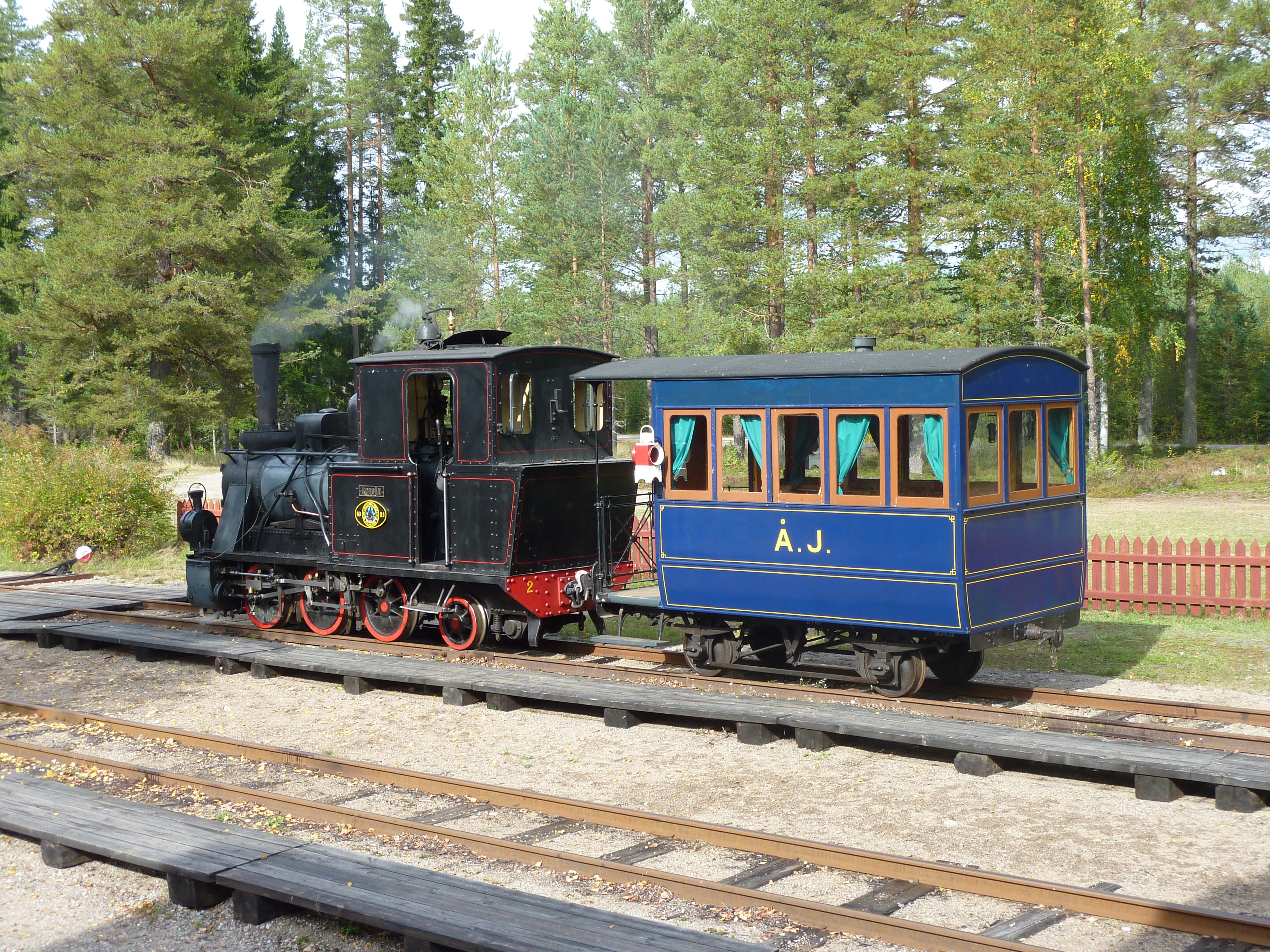 Steam train at Tallås, at Jädraås - Tallås museum railway (JTJ), in Sweden with Steam engine "Korsån" and "Kungavagnen" (from Åg railway)